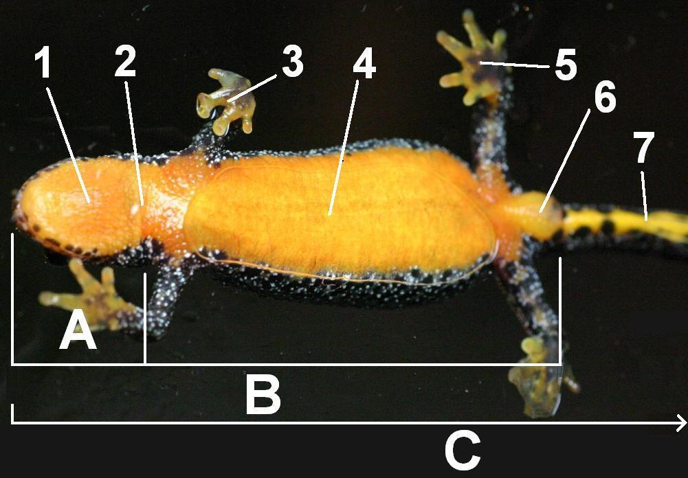 Description: Mesotriton alpestris ♀ *Source: own photo. Bielefeld, Germany (2005/03/26) *Photographer: Christian R. Linder *Licence